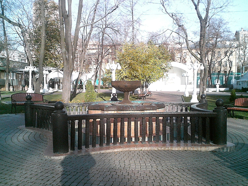 Hermitage Garden Moscow Old Fontain